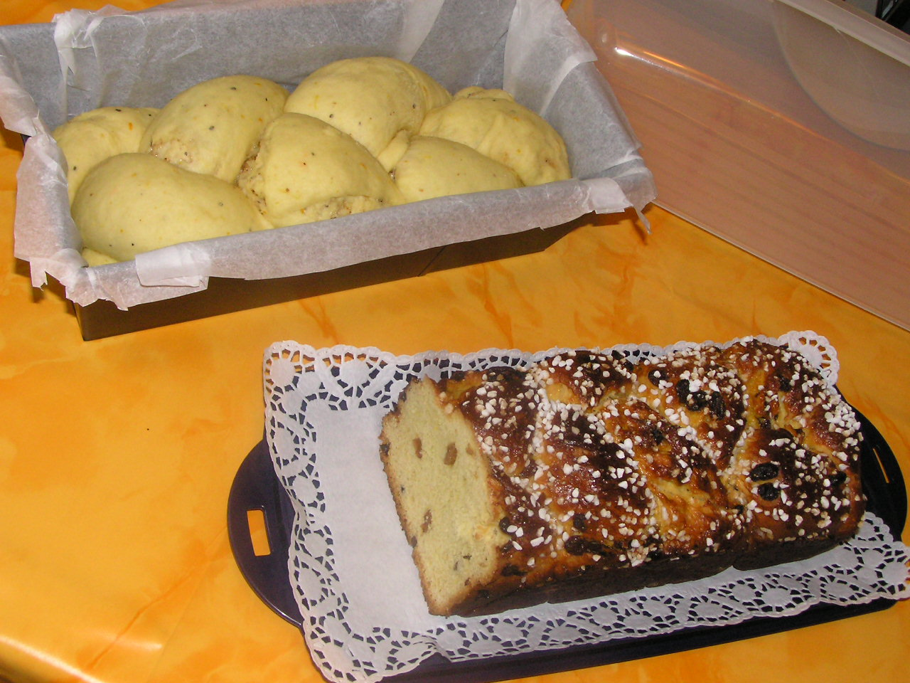 Cozonac